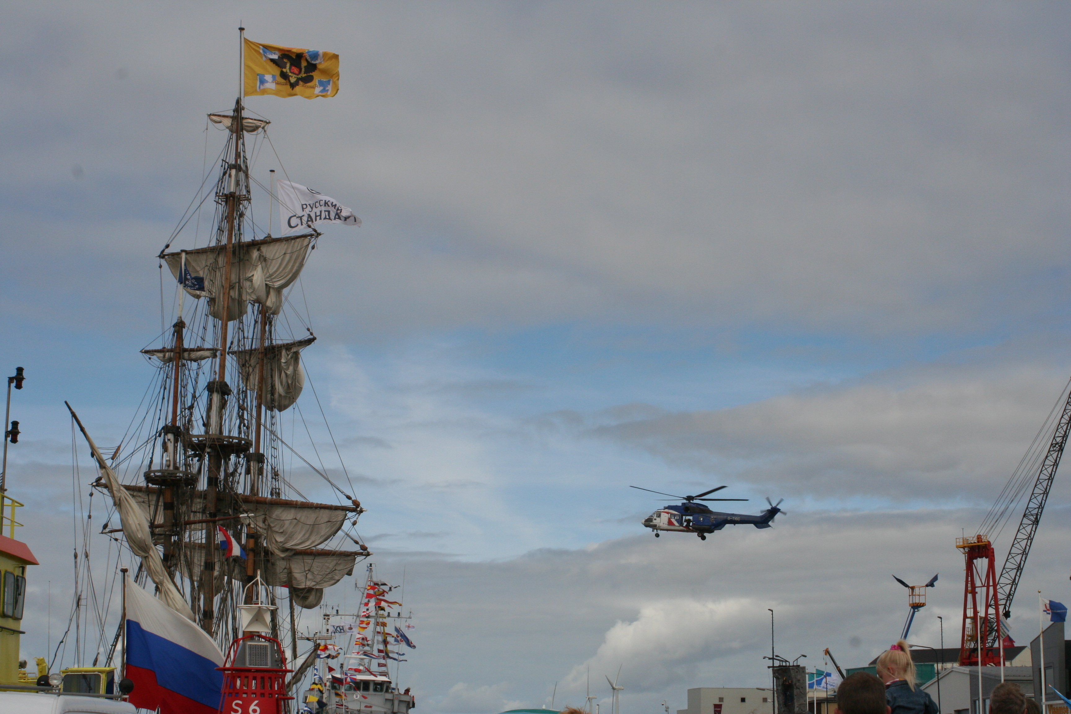 The Standard from Czar Peter the Great, replica. Exhibition 2008 (Fishermen days, Visserij Dagen)